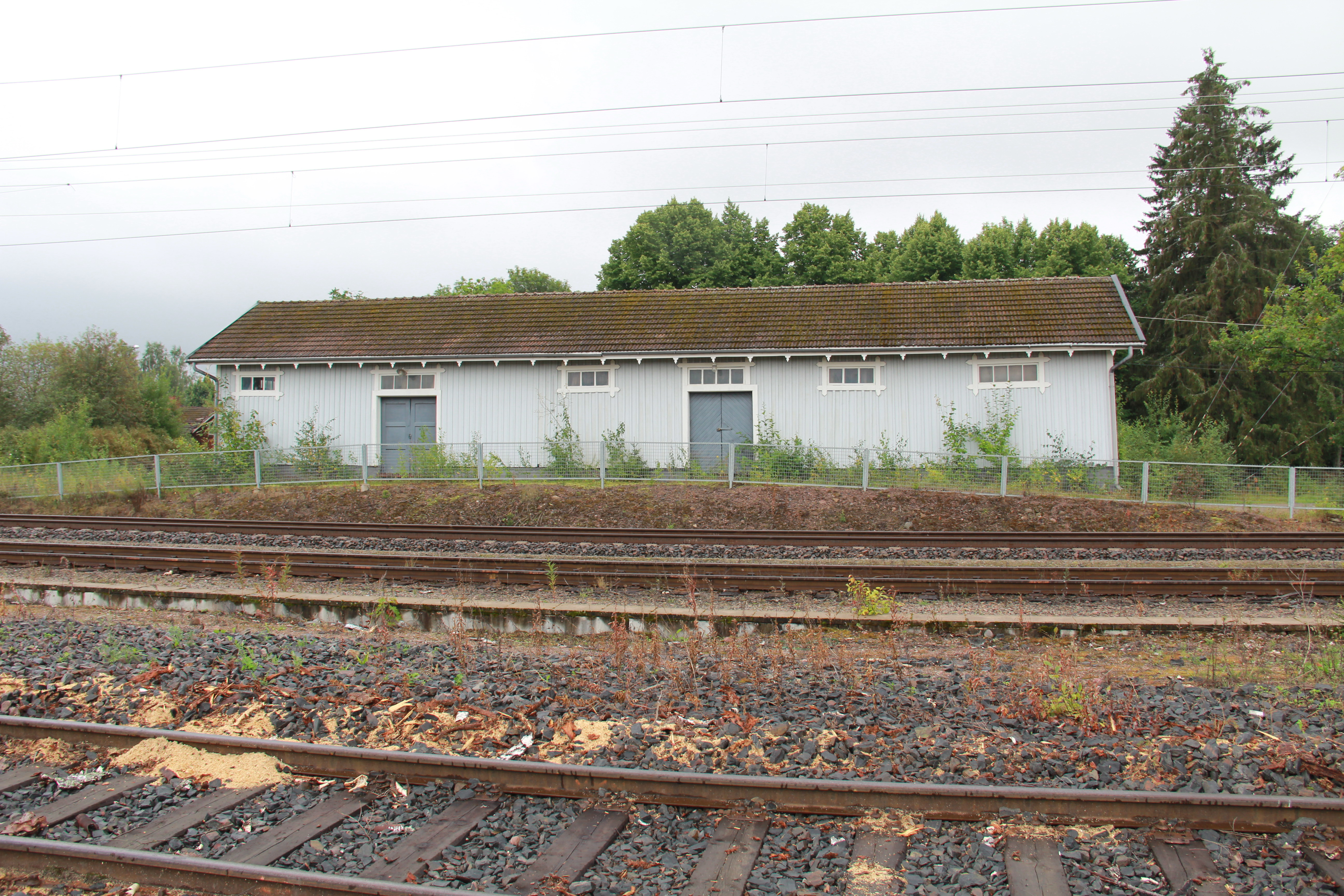 Kyrö railway station's warehouse in Kyrö, Karinainen, Pöytyä, Finland. Built in 1870's, not in it's original use anymore.